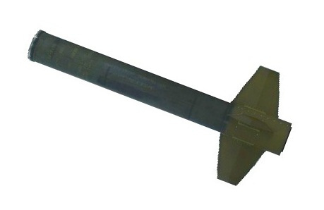 Nike-I rocket stage shape